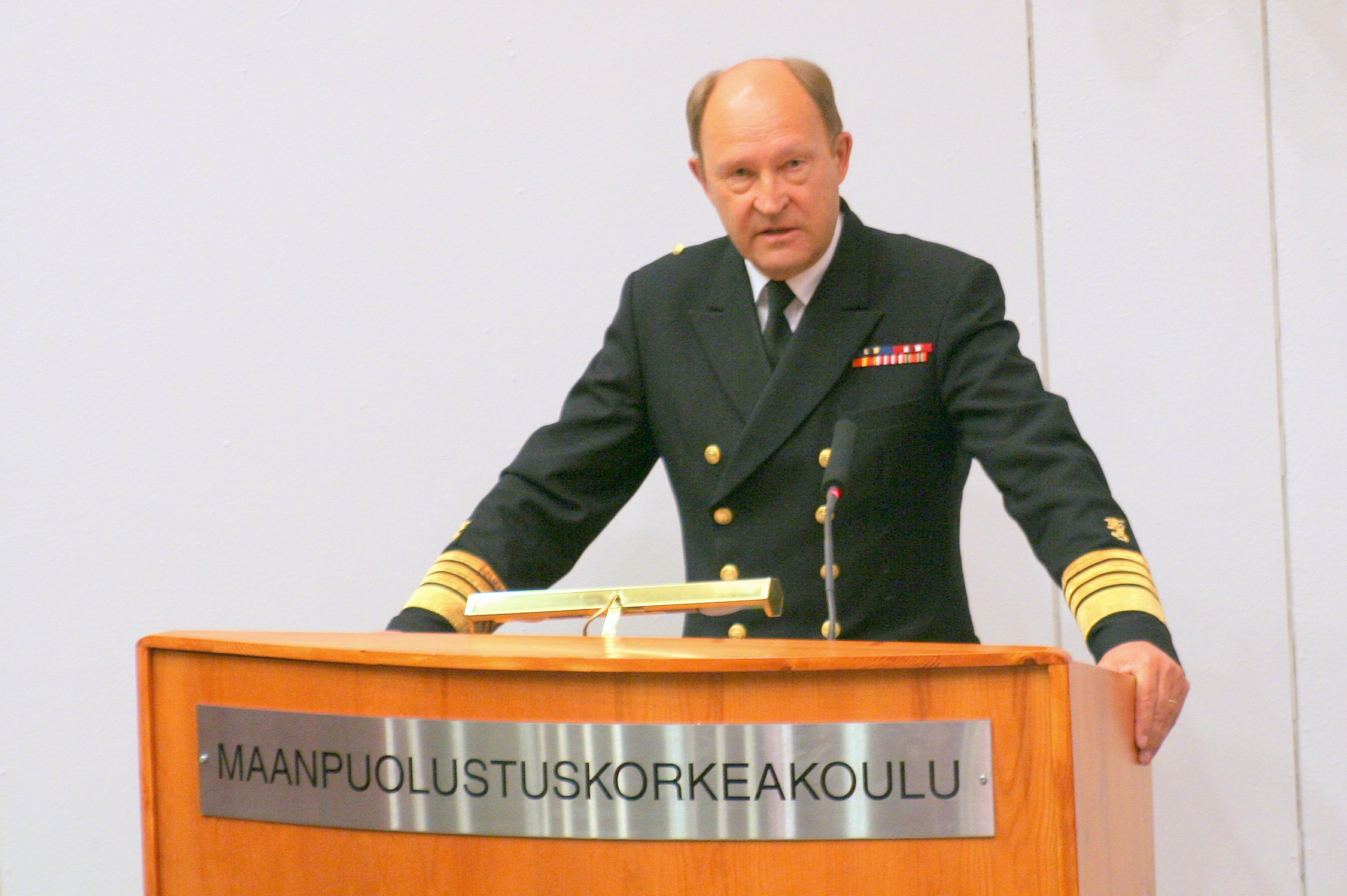 The opening of The 5th Symposium of Military Sciences (Sotatieteen päivät) in the auditory of the National Defence University, the commander of the defence forces of Finland, admiral Juhani Kaskeala